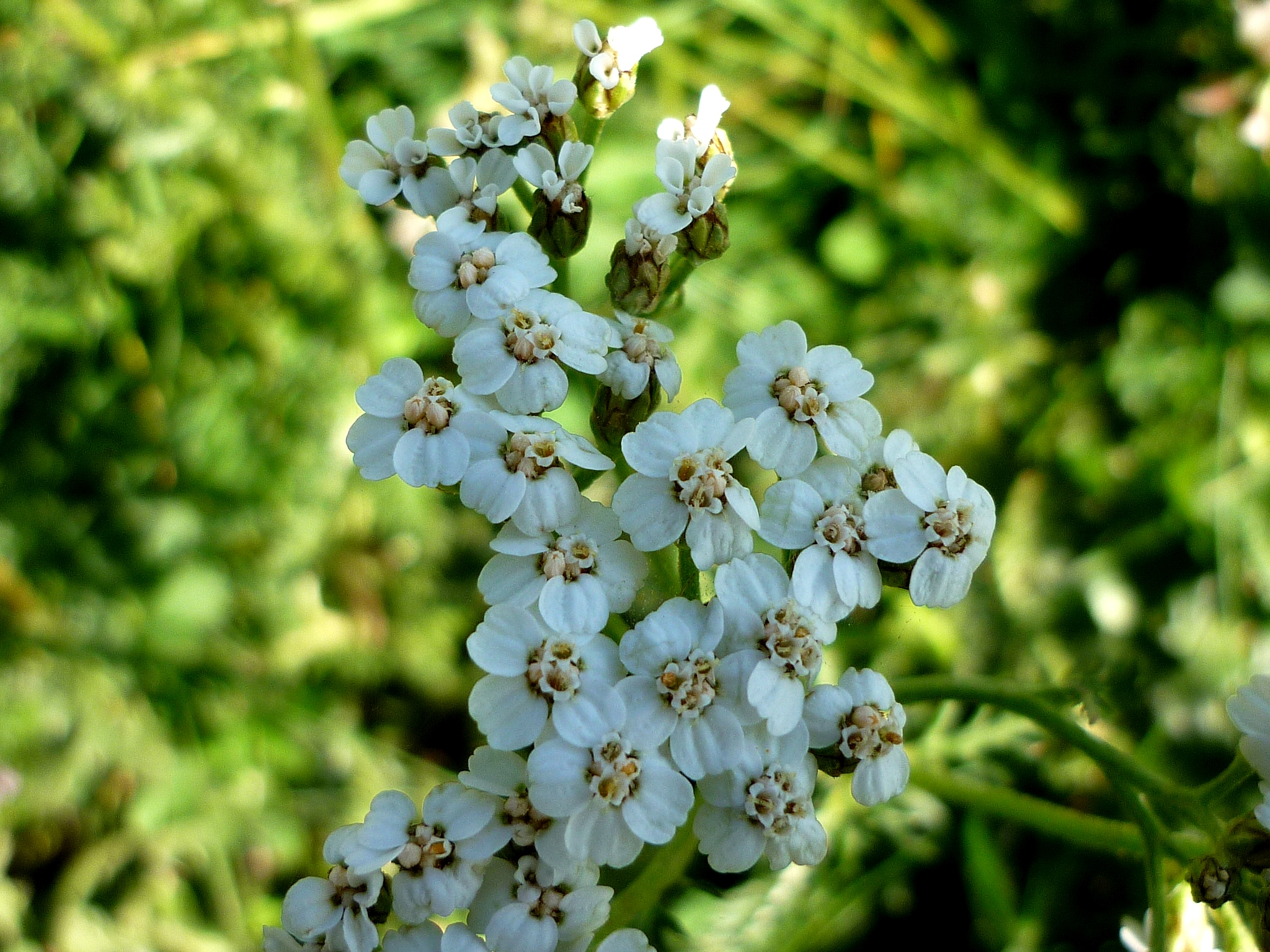 Achillea millefolium. In Coll de Pradell, La Coma i la Pedra (Solsonès - Catalunya), at 2,100 m. altitude